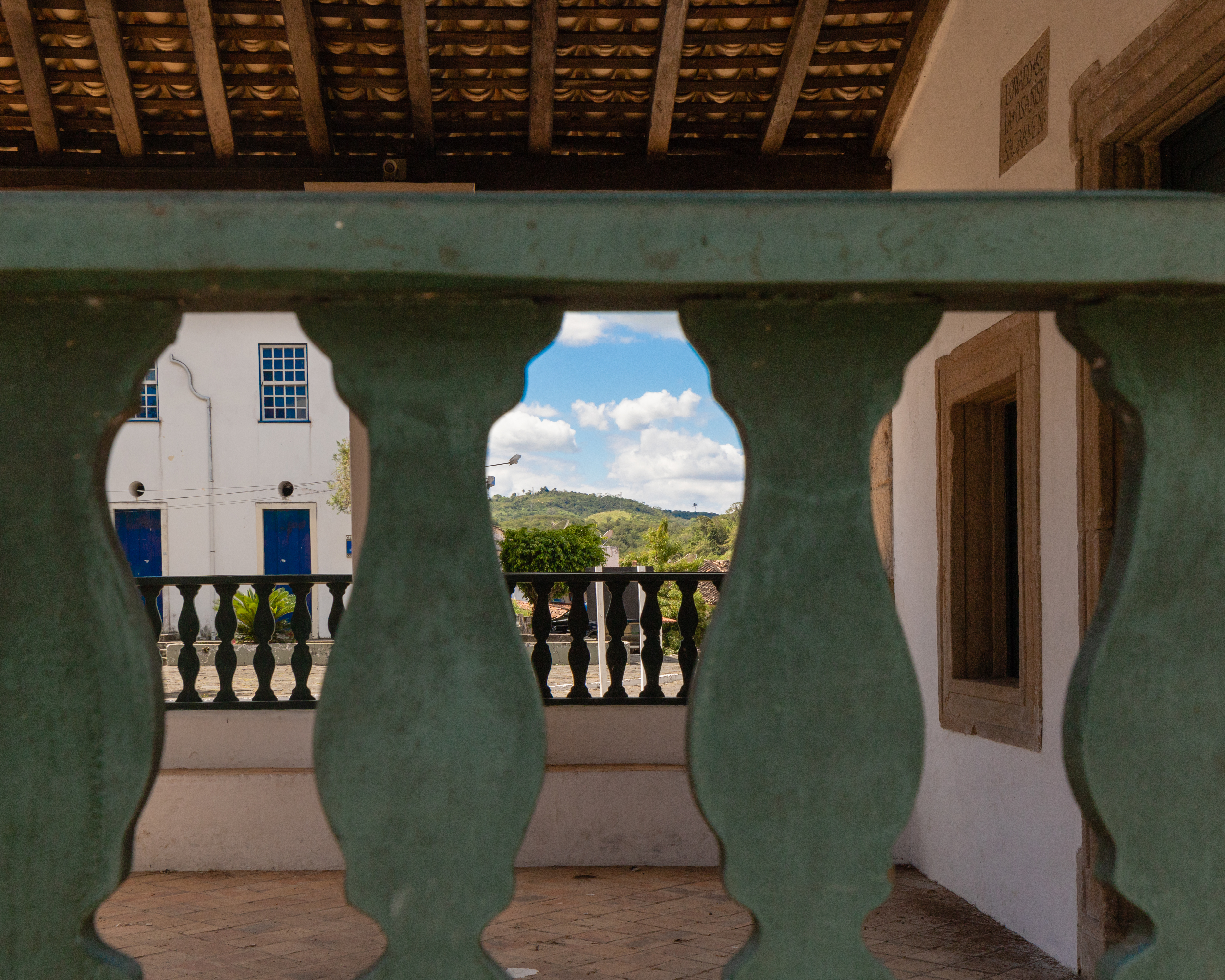 Church porch of Chapel of Our Lady of Help, Cachoeira, Bahia, Brazil.